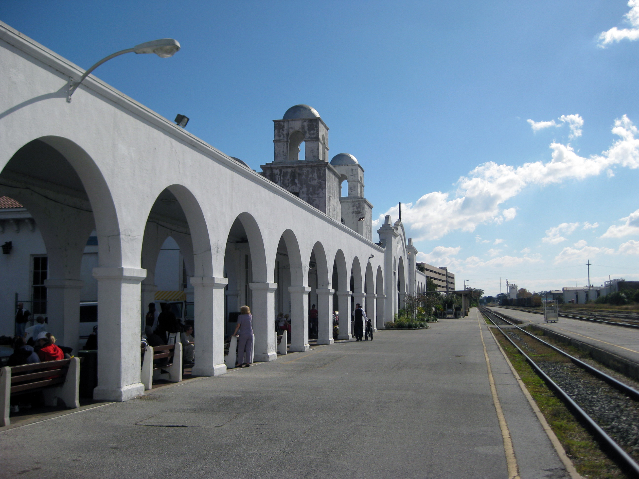 Mission revival-style arches stretch along the platform at Orlando, Florida's Amtrak train station.